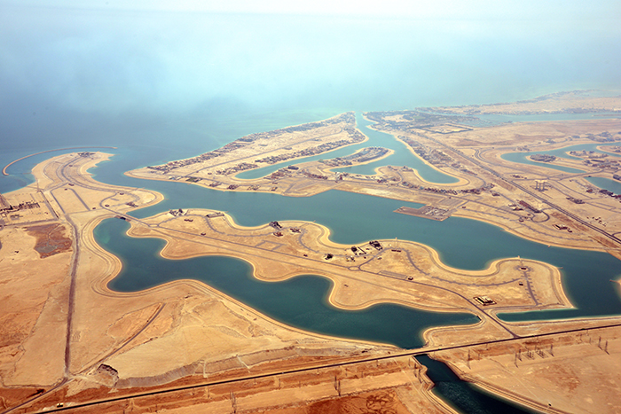 Sea City has pioneered many construction challenges and techniques in Kuwait.